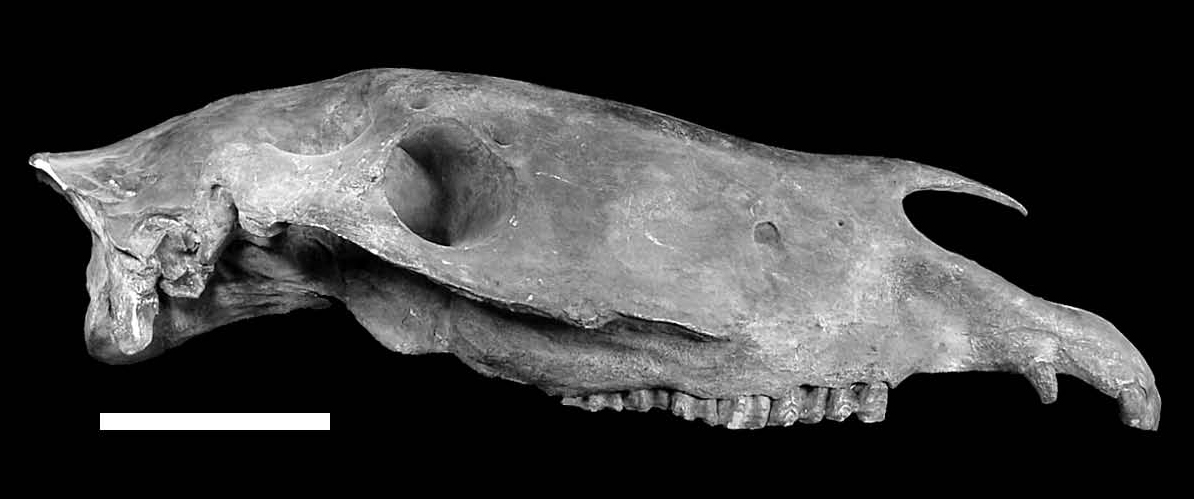 The South American horse Equus (Amerhippus) sp. (MACN without catalogue number). Scale bar = 10cm.